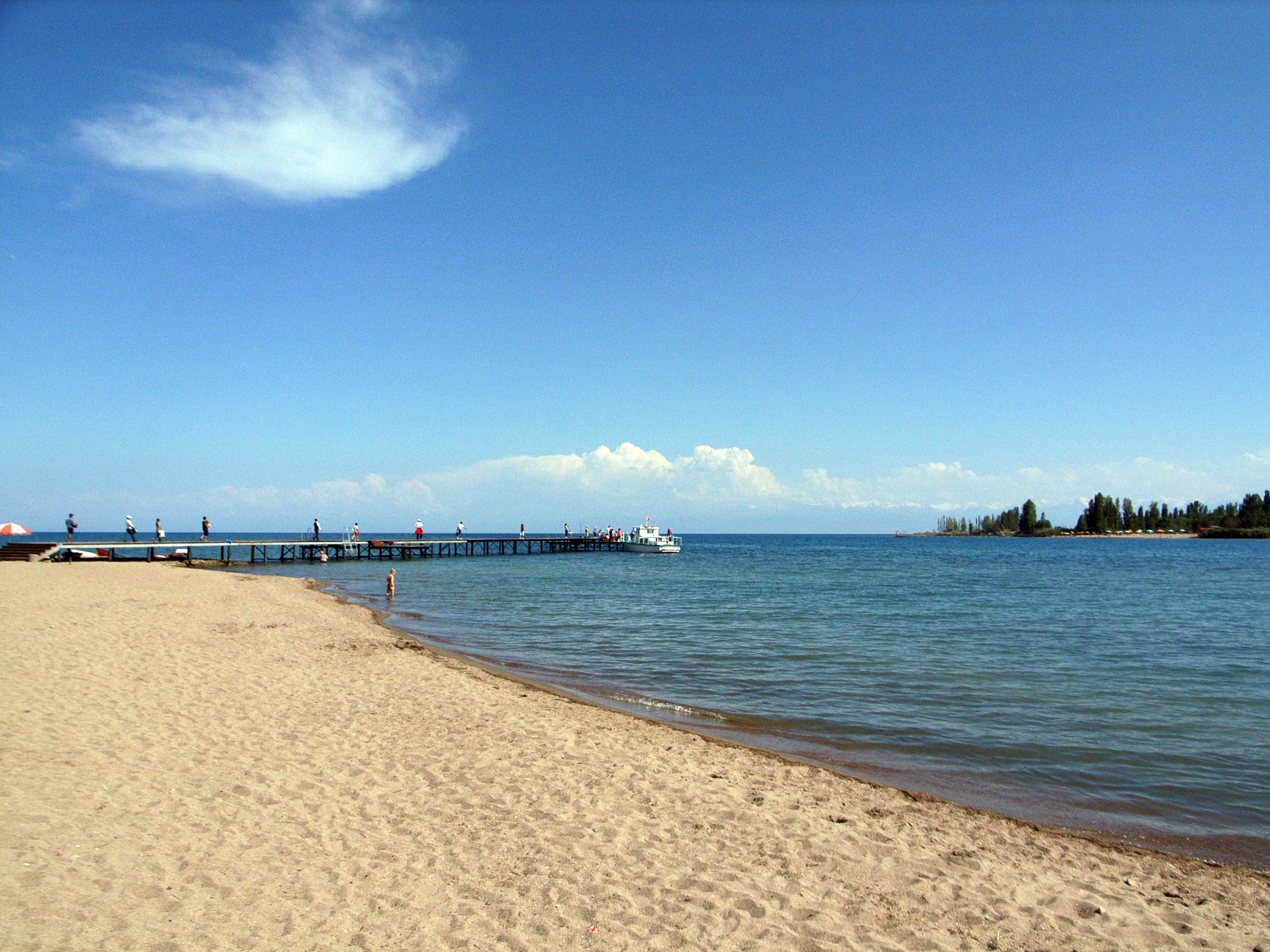 Issyk Kul beach in 2009.